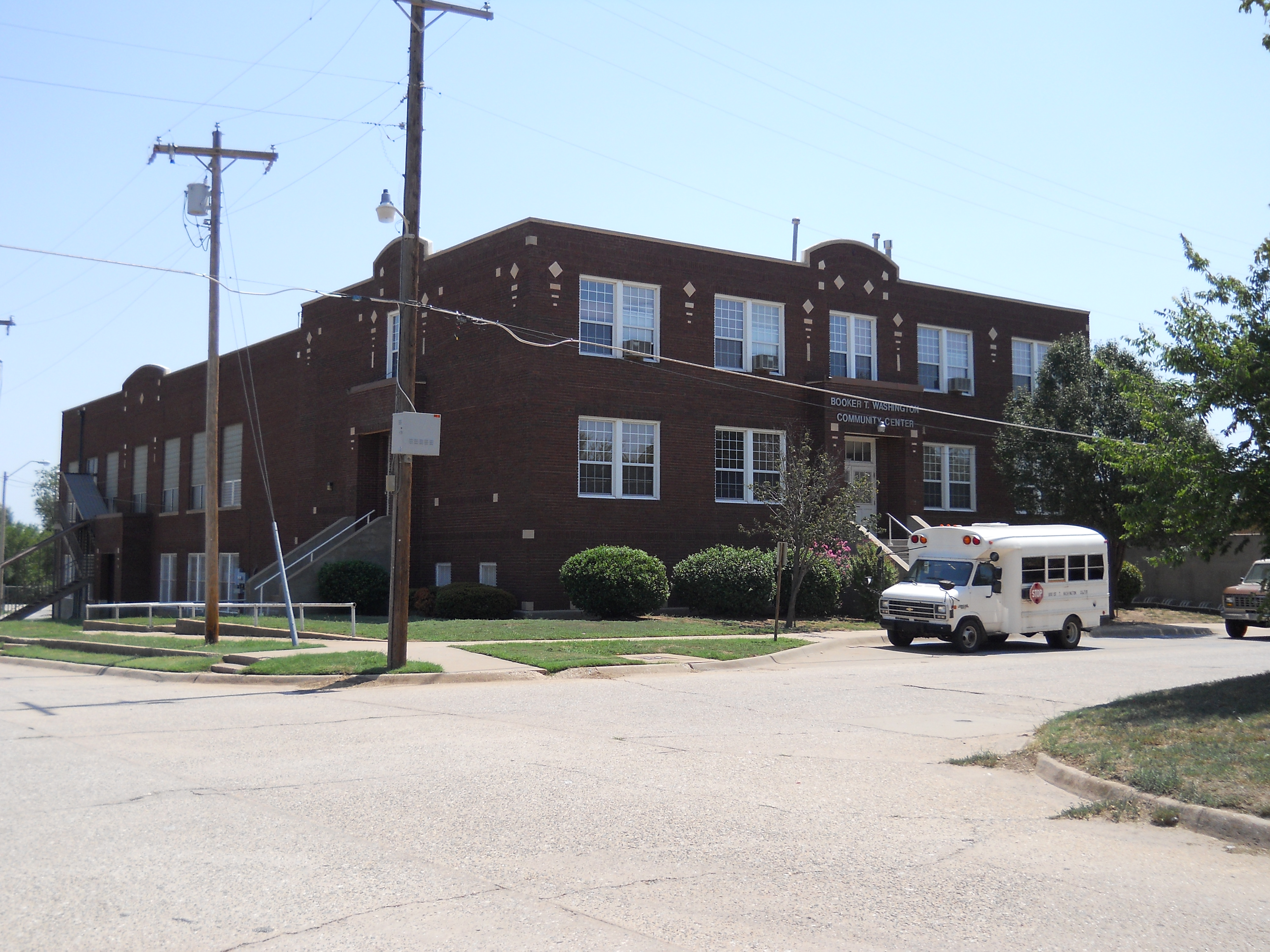 Booker T Washington School in Enid, Oklahoma was historically a black school.